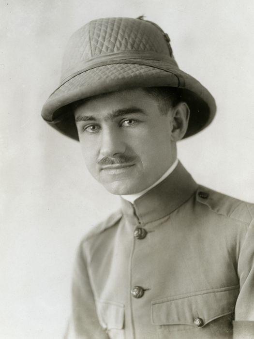 Lowell Thomas in Arabia 1918.